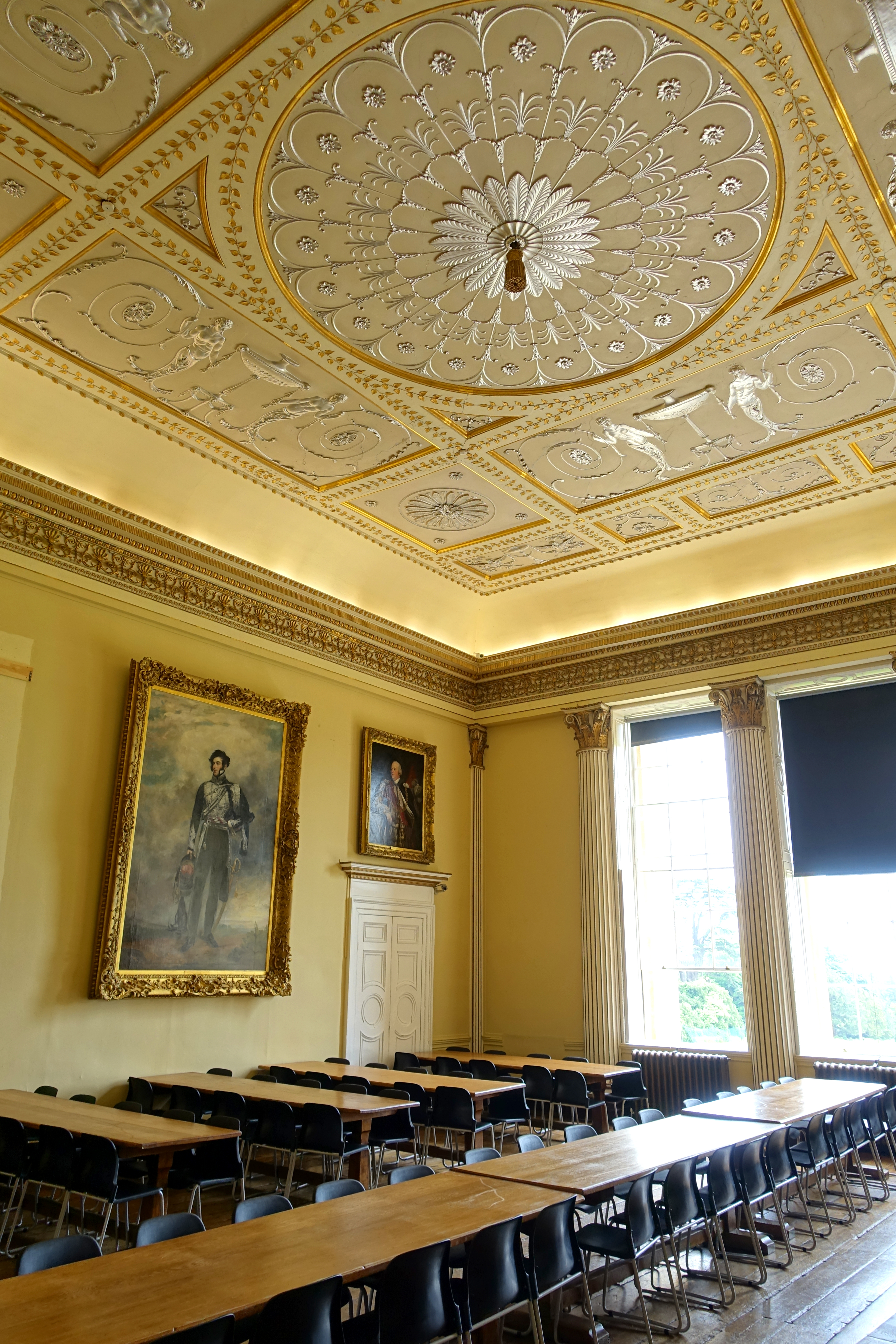 Interior view of Stowe House - Buckinghamshire, England.